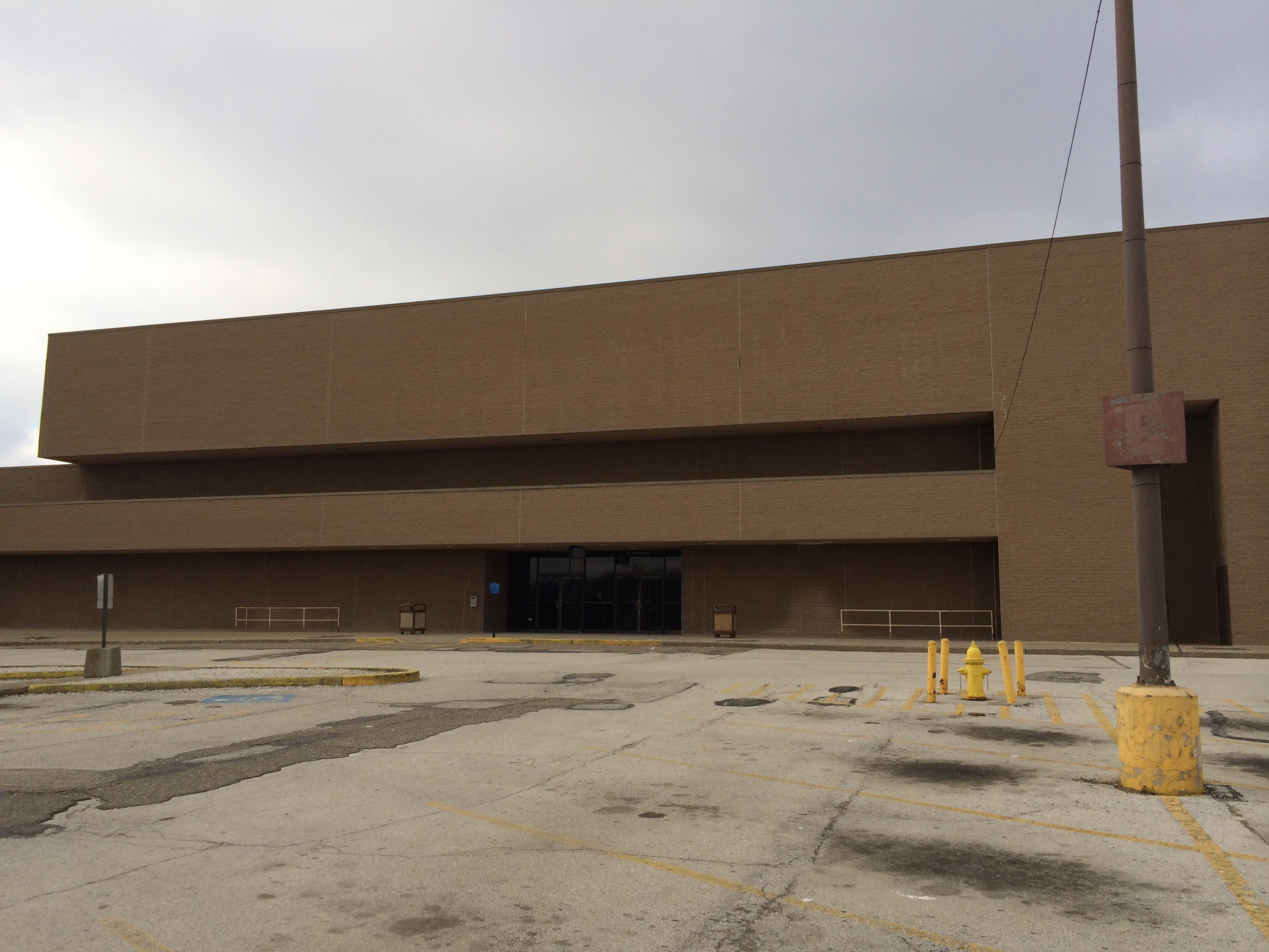 Former JC's 5 Star Outlet/JCPenney Outlet at Rolling Acres Mall, Akron, OH, on January 18th, 2014